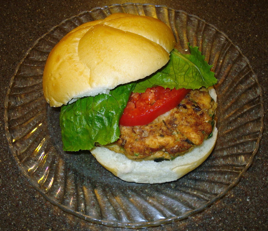 Salmon burger made from frozen salmon, egg, breading, Korean hot spices, served on a bulkie roll. A bulkie roll or bulkie is a New England regional variety of sandwich roll. Bulkie rolls are larger and firmer than hamburger buns. The crust is usually slightly crisp or crunchy, but bulkies are not hard rolls. The bread within the roll is similar to ordinary white bread; with a texture that is neither very chewy nor very fluffy; without any yellow color or egg taste; and not noticeably sweet. Bulkie rolls are not topped with seeds.